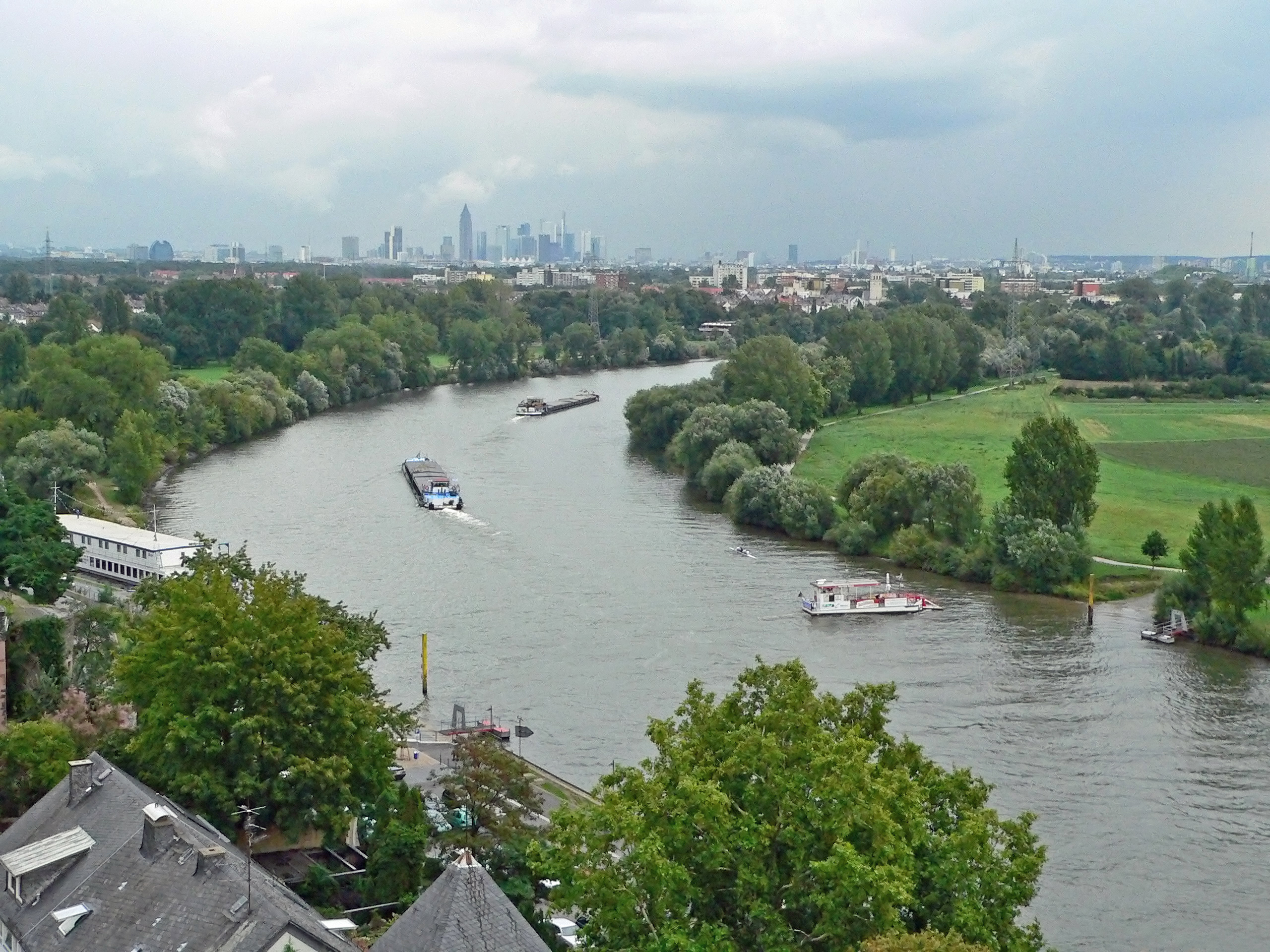 The Main River in Frankfurt-Höchst